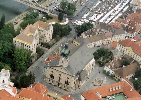 Győr, Hungary, aerialphotography